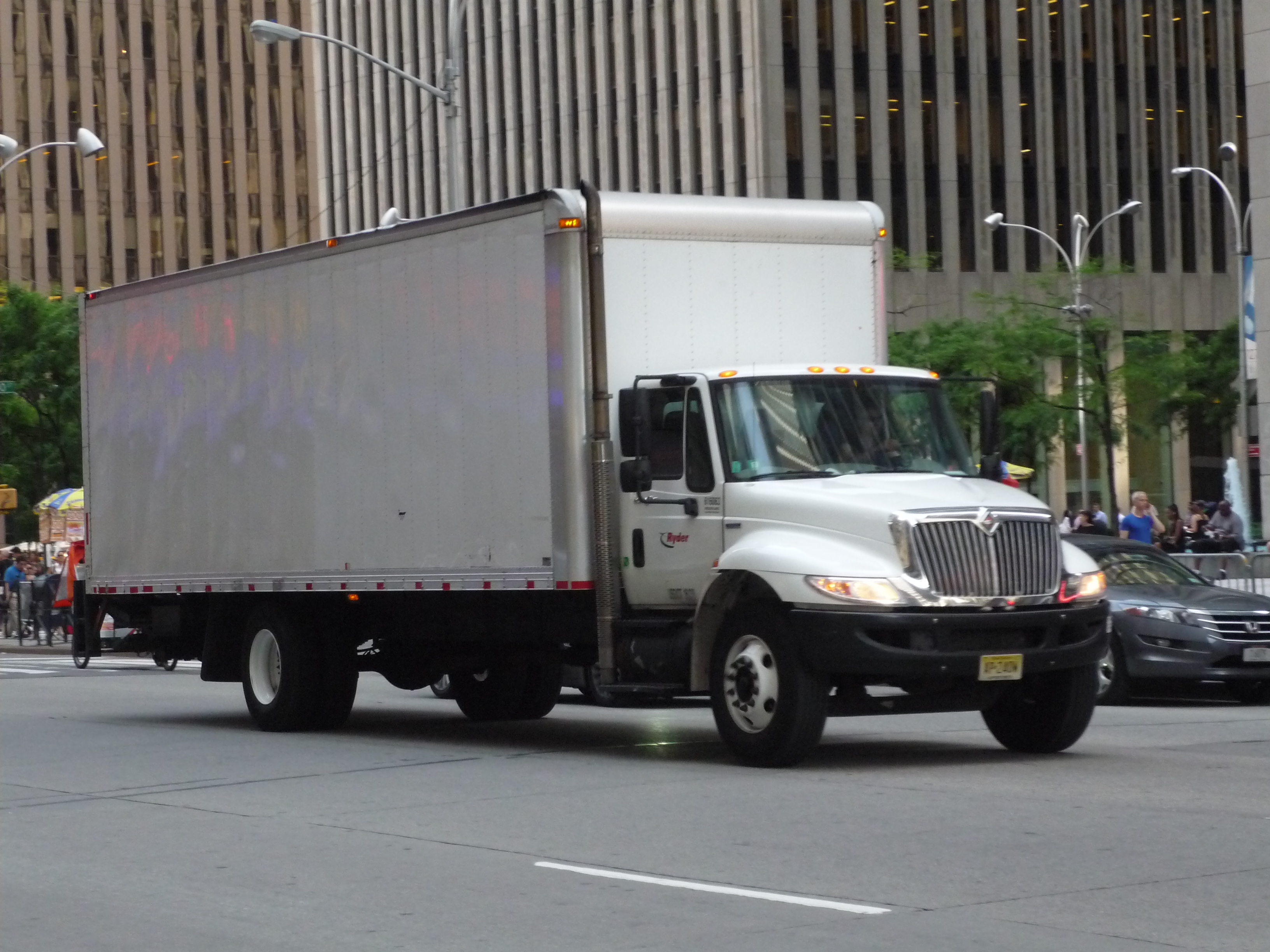 Ryder is in the business of leasing/renting out trucks, and has a very large fleet available to prospective customers. This is one of their "straight trucks", which fall in the middle of the range of vehicles they have available.